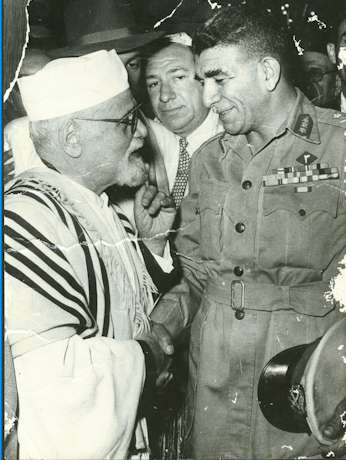 Egyptian President Muhammad Naguib (1901–1984) visits Haim Nahum Effendi (1872–1960), Chief Rabbi of Egypt, at the Sha'ar Hashamayim Synagogue in Cairo. According to Bassatine News, the visit took place on the occasion of Rosh Hashanah, the Jewish New Year.